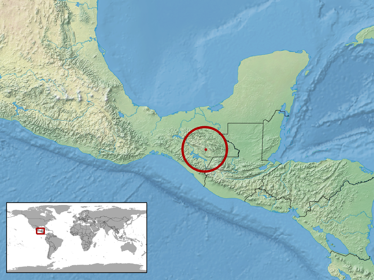 geographic distribution of Abronia leurolepis (Native: Mexico)